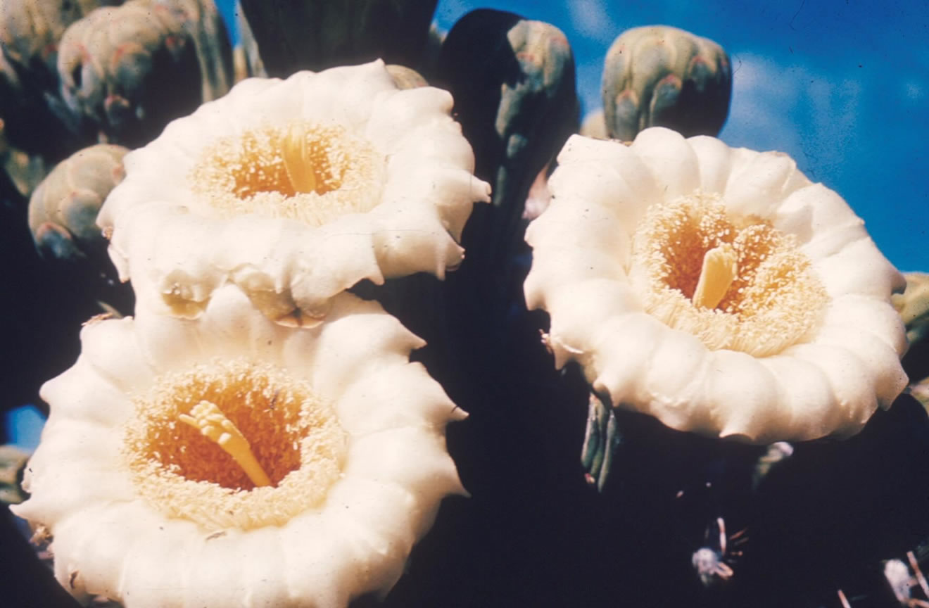 Carnegiea gigantea flowers